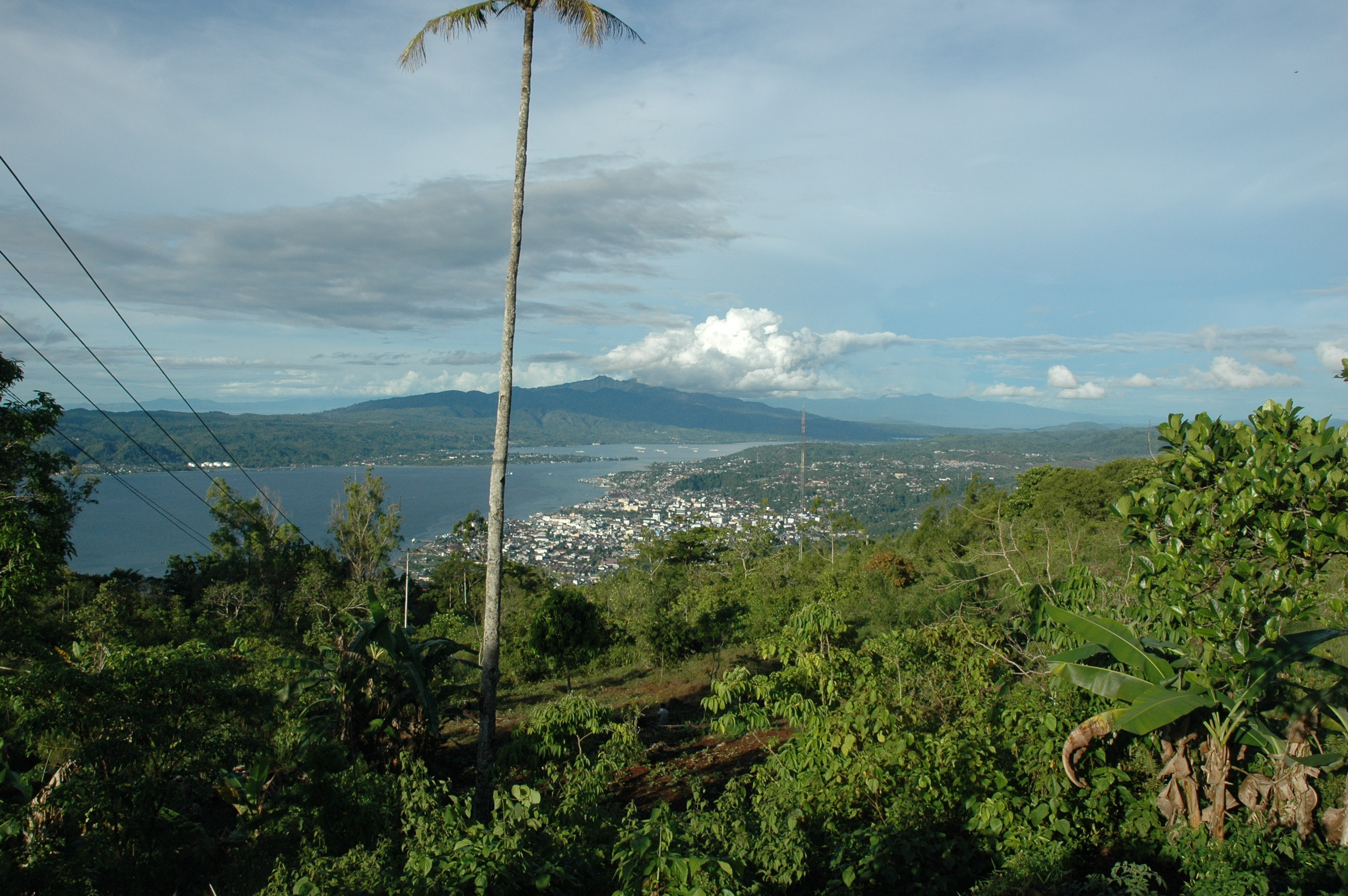 View of Ambon City.